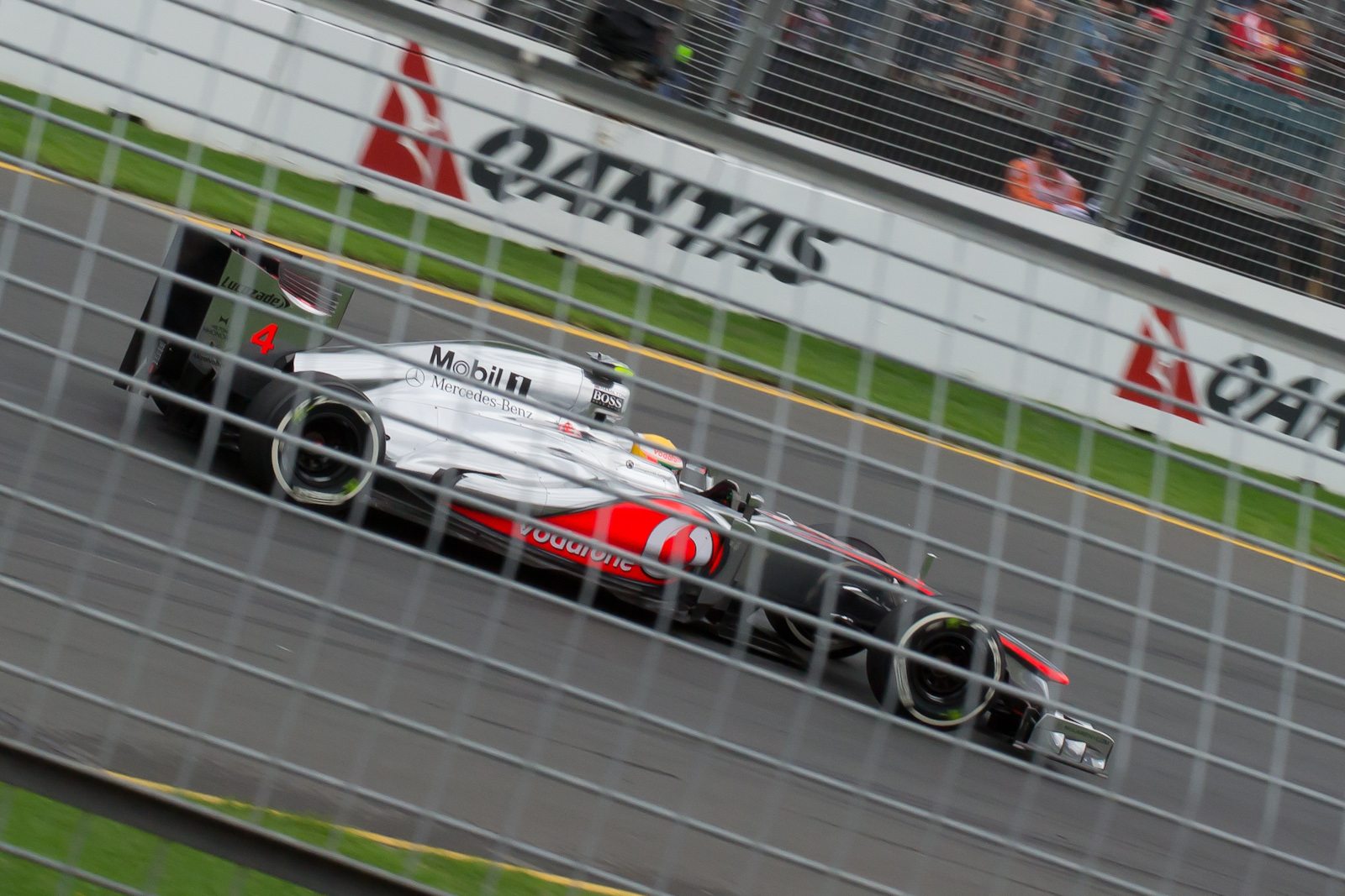 Hamilton 2012 Australian Grand Prix